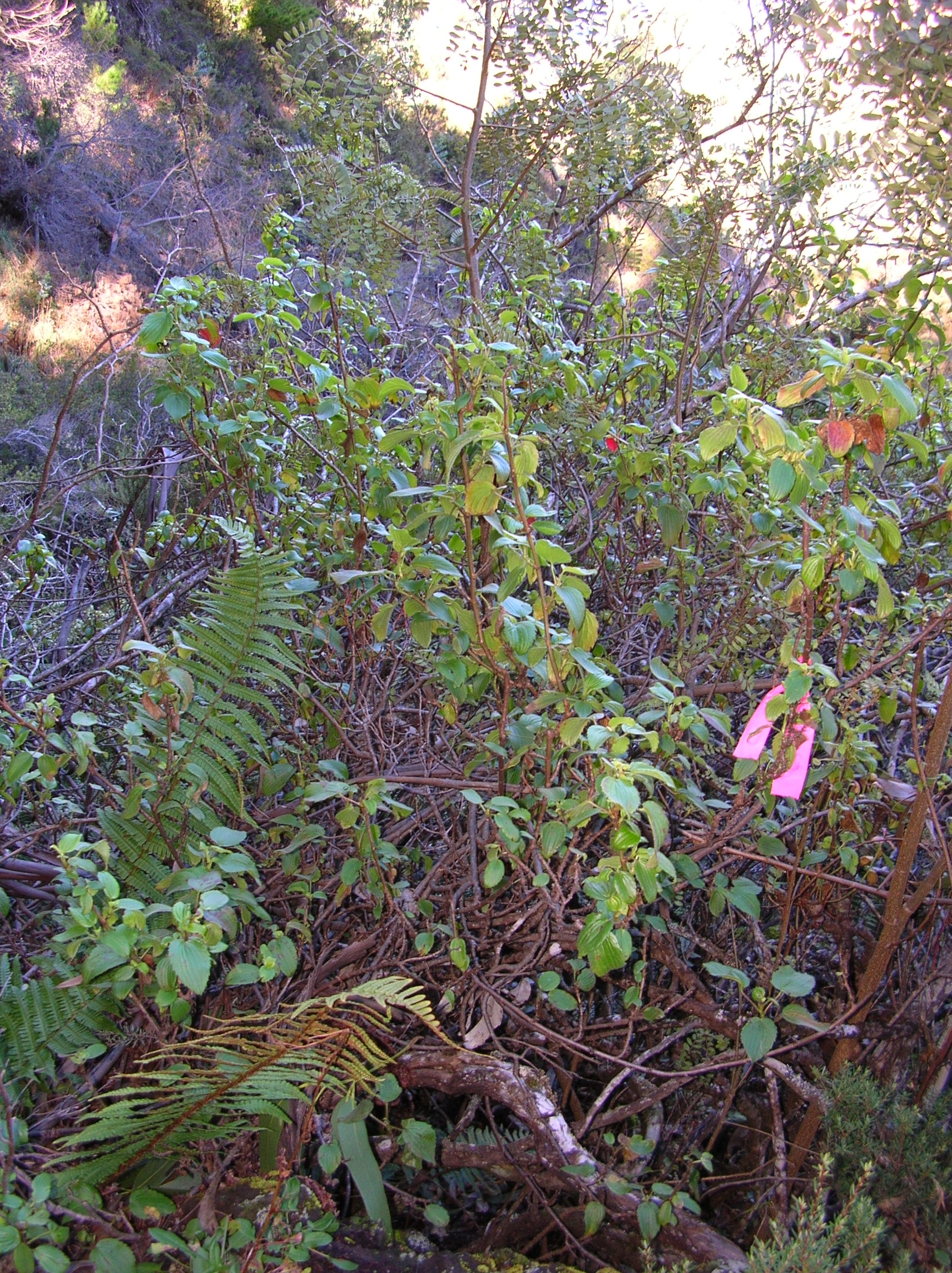 Geranium arboreum (habit). Location: Maui, Puu Nianiau